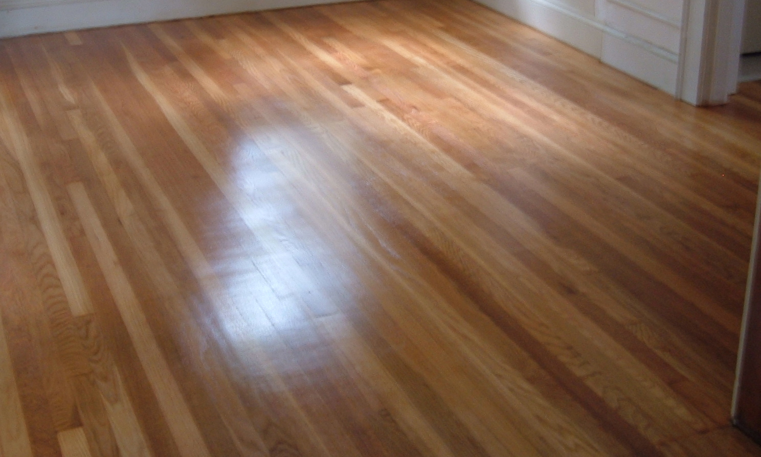 Wooden floor. One of a series of common objects I photographed in the summer of 2005 to illustrate Basic English picture wordlist. --agr 21:08, 3 August 2005 (UTC)